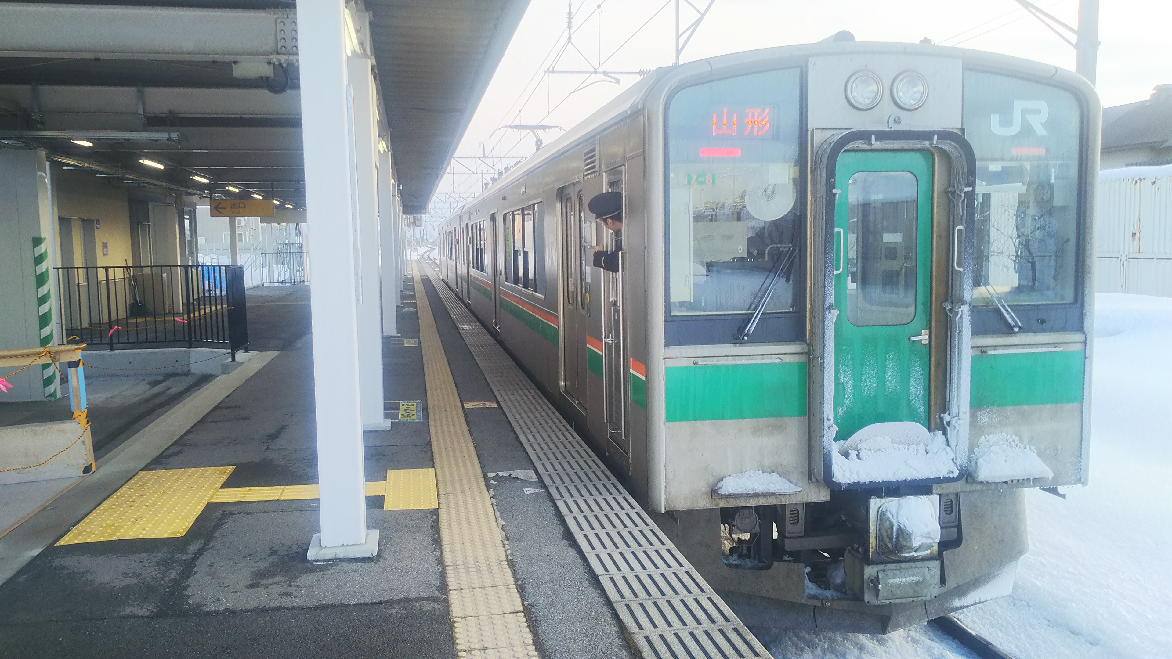 A JR East 701-5500 series EMU at Jimmachi Station on the Ou Main Line in Yamagata Prefecture, Japan